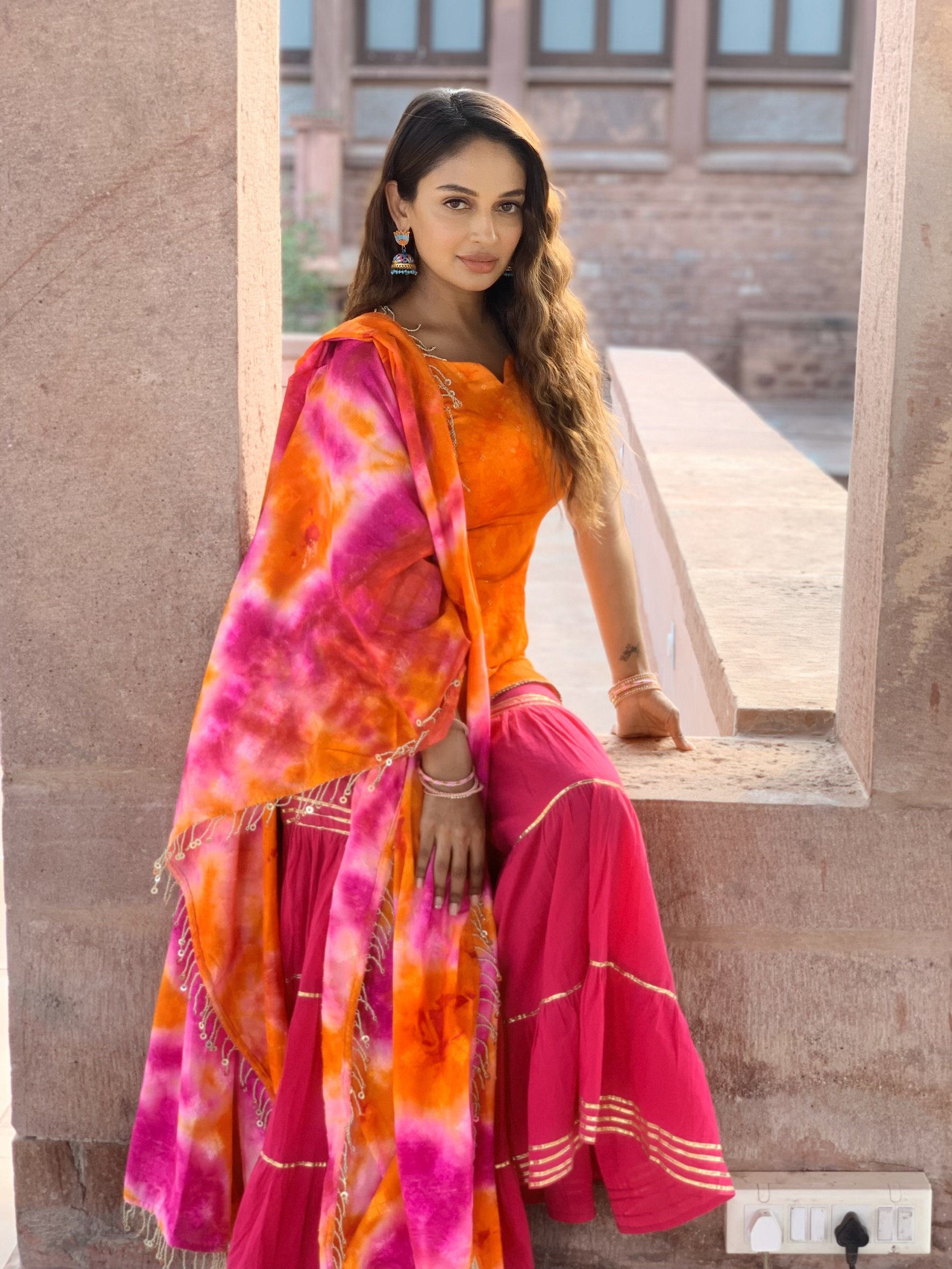 Photograph of Rubina Bajwa.